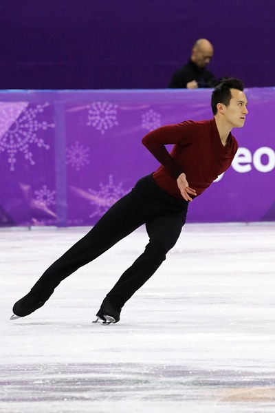 Patrick Chan (CAN) skates his free program at the 2018 Winter Olympic Games in PyeongChang (KOR)